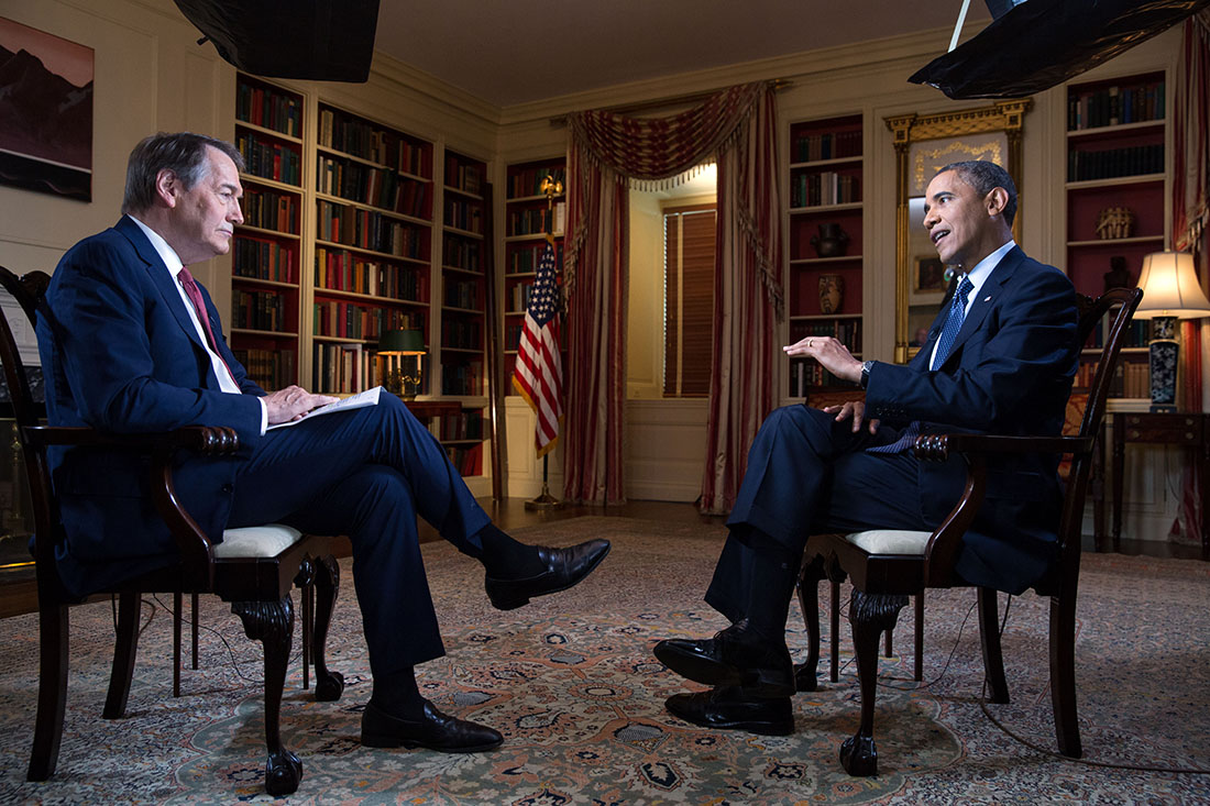 Broadcaster Charlie Rose interviews United States President Barack Obama in the White House Library on 16 June 2013.